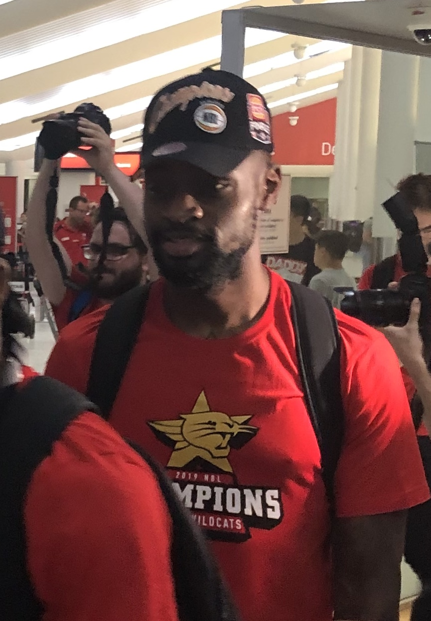 Terrico White, after winning the championship with the Perth Wildcats